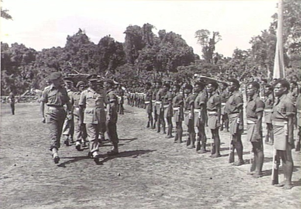 Papuan Infantry Battalion troops at Torokina, on Bougainville, October 1945. They are being inspected by Major General William Bridgeford, commander of the Australian 3rd Division